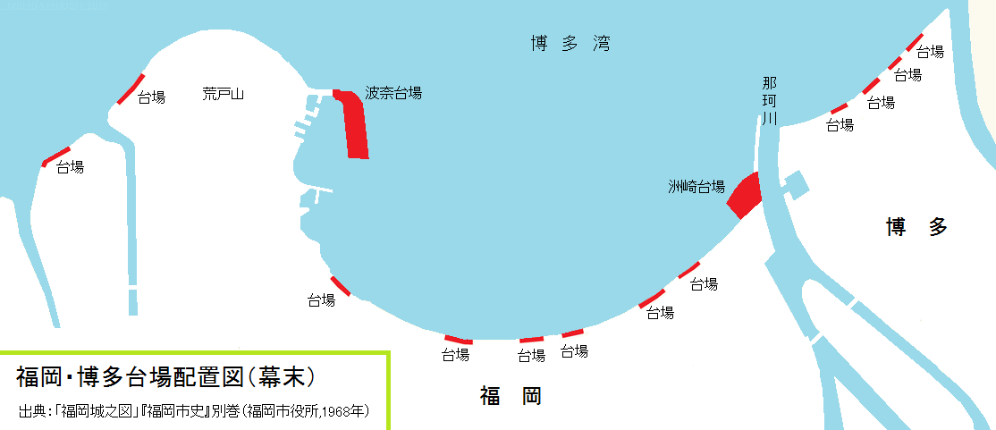 Forts in Fukuoka and Hakata, in 1860s